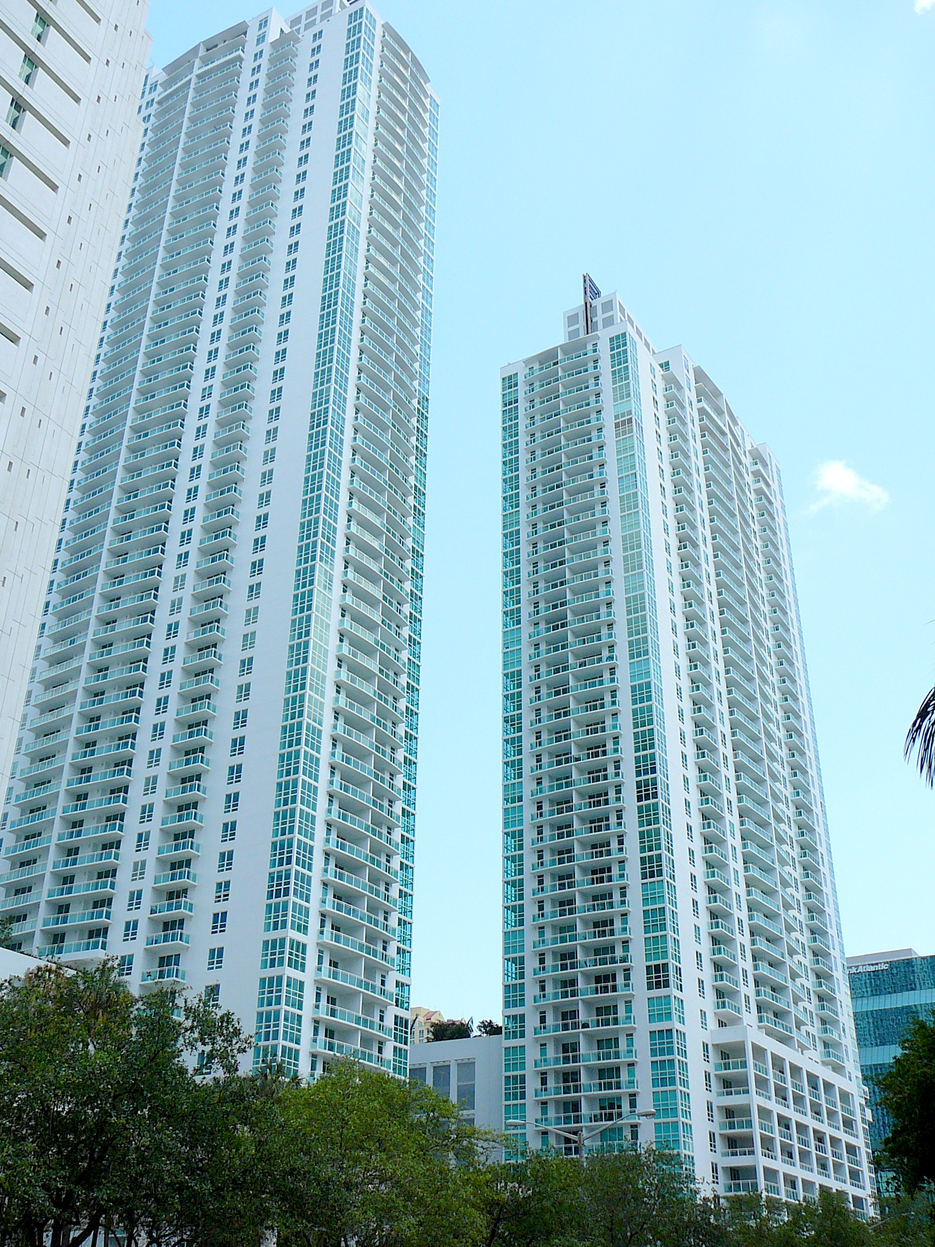 Digital photo taken by Marc Averette. The Plaza on Brickell twin towers in downtown Miami, Brickell Avenue northwest view 5/14/2008